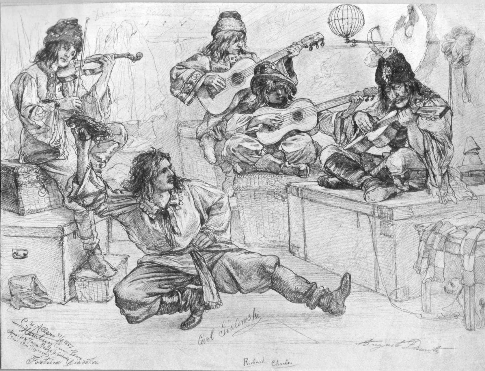 Group of Circus Renz artists, with Carl Godlewski